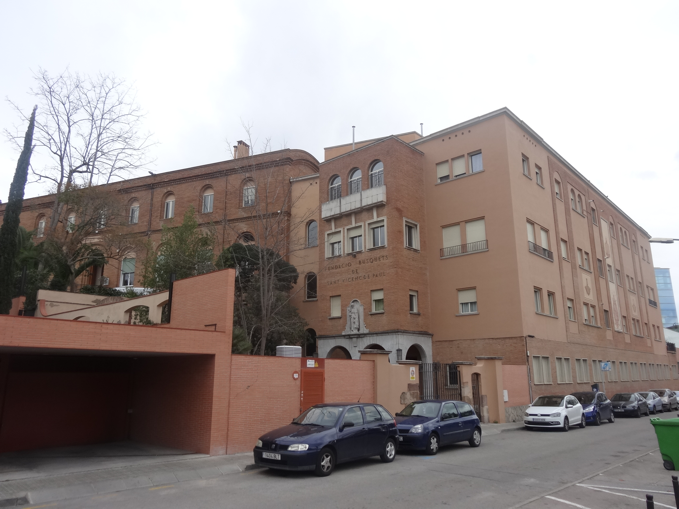 Fundació Busquets (Terrassa)